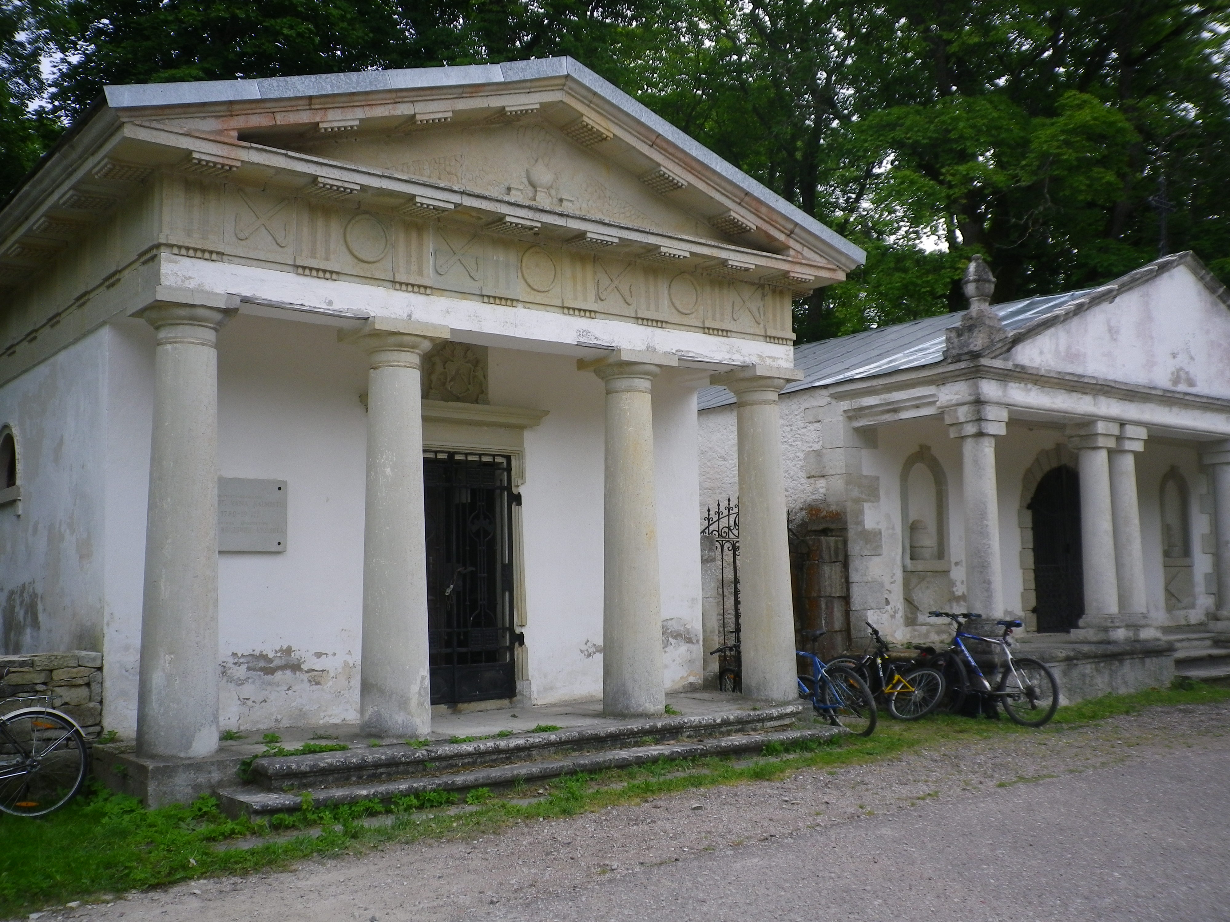 Kudjape cemetary, Saaremaa, Estonia